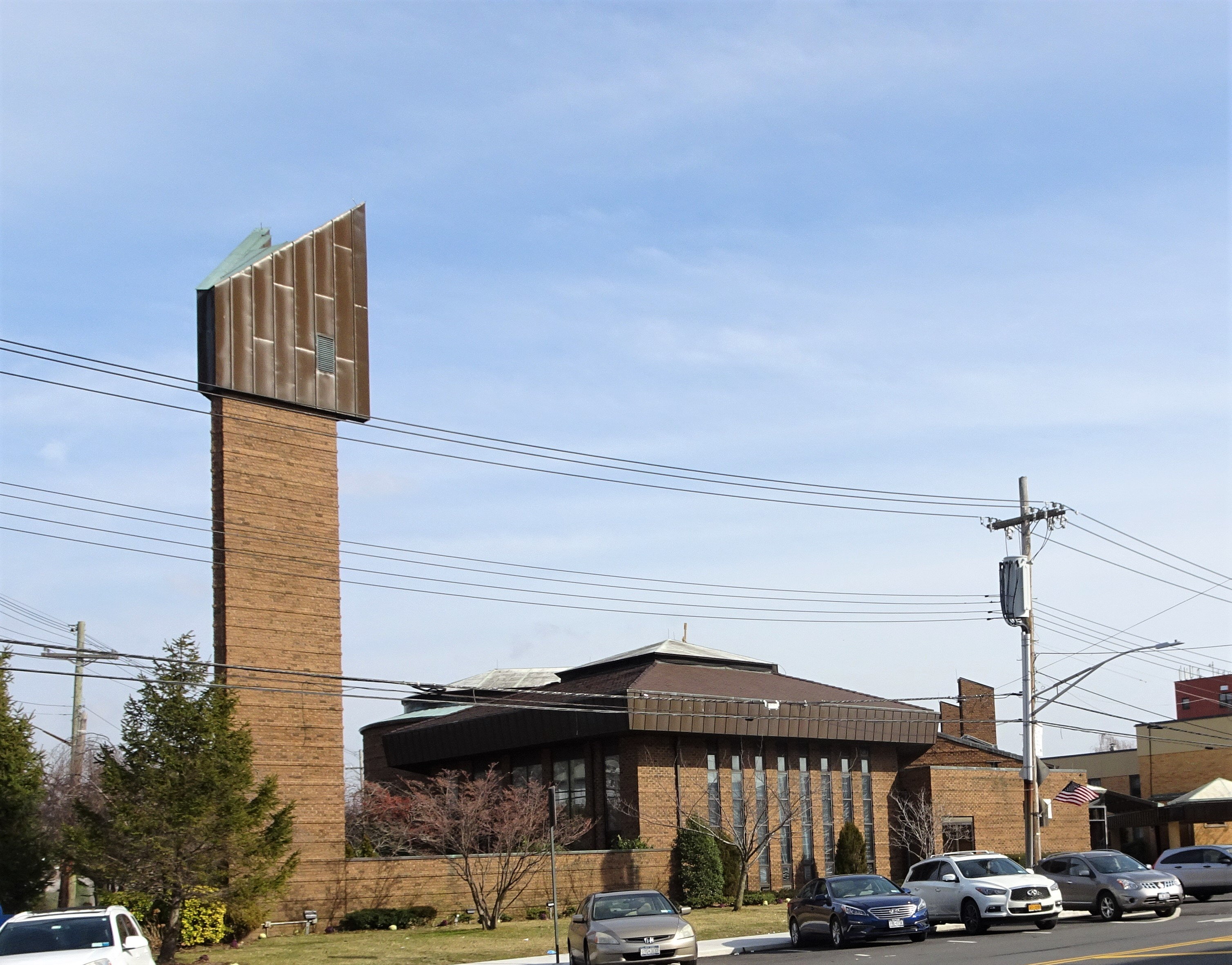 Looking east at church